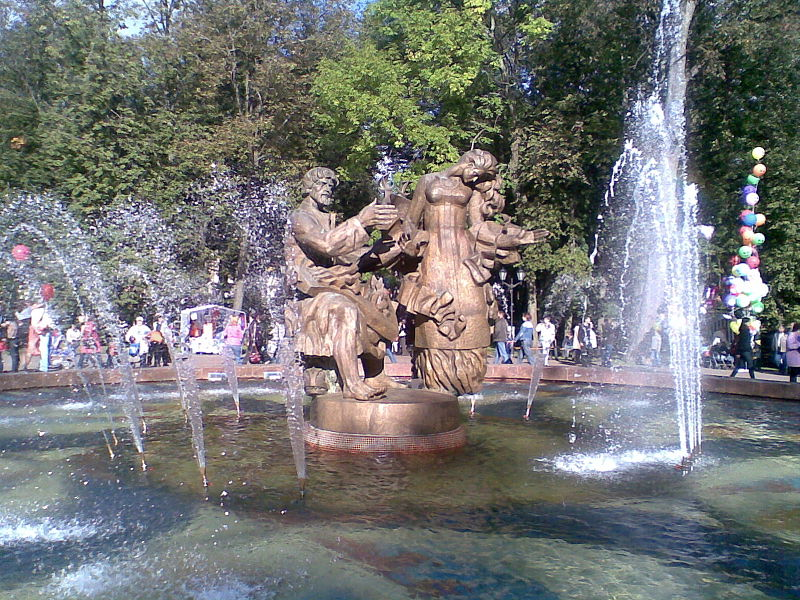 Statue in the park west of the Novgorod kremlin.